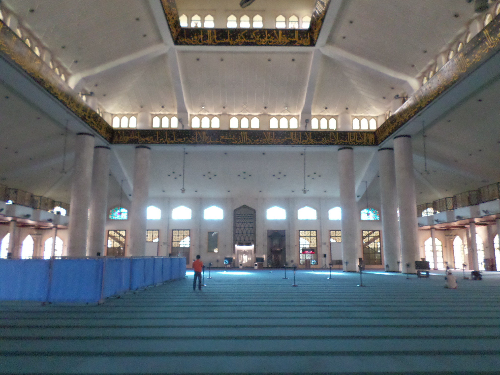 Malacca State Mosque, Malacca Town, Malacca, MalaysiaBahasa Melayu: Masjid Negeri Melaka, Bandaraya Melaka, Melaka, Malaysia